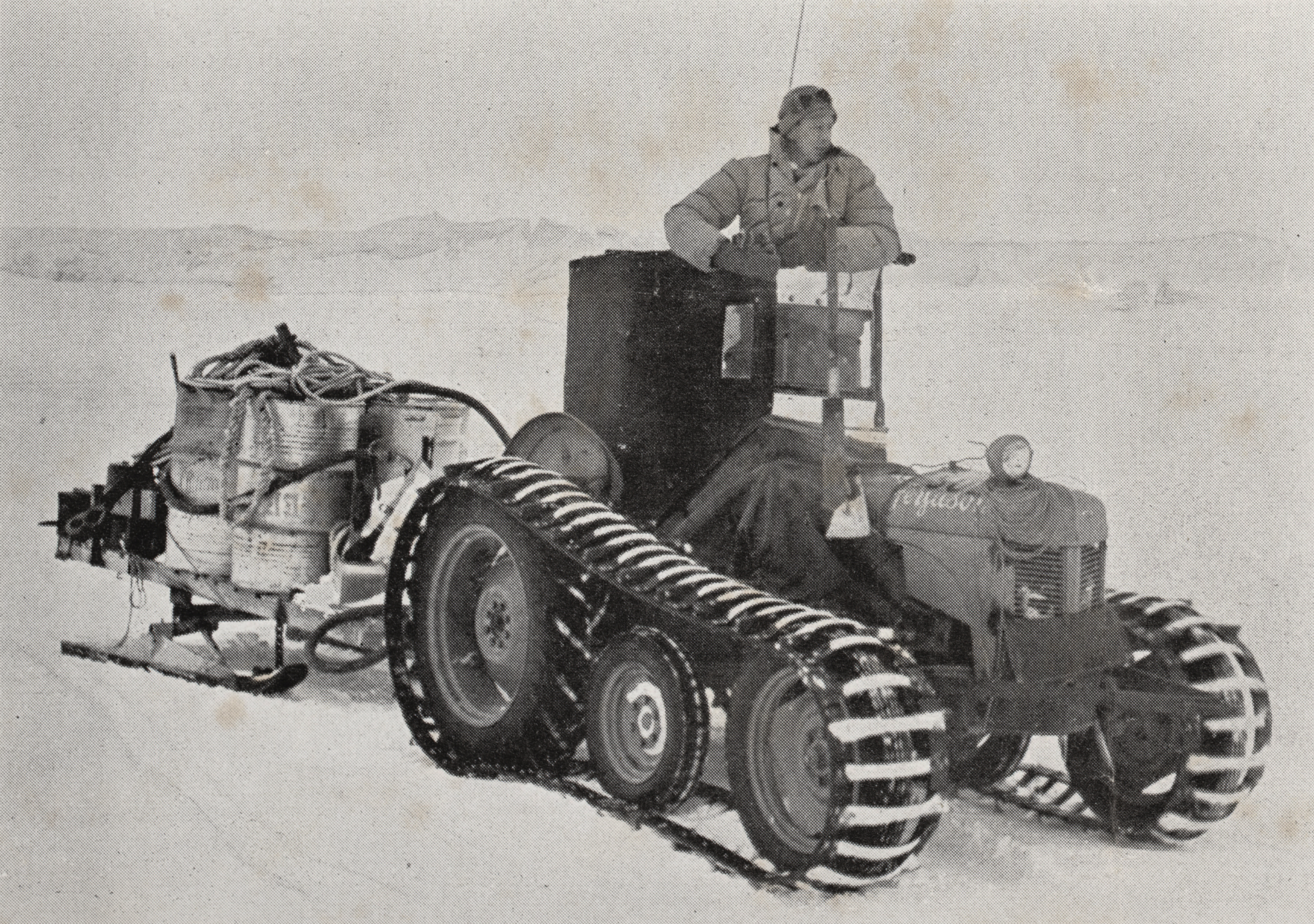 A tractor with a load of vital tractor fuel. From a collection of photographs depicting the departure from Scott Base of the New Zealand tractor train of the Commonwealth Trans-Antarctic Expedition on its depot-laying journey toward the South Pole, published in:"South Polar journey begins". The Weekly News (Auckland, New Zealand: Wilson and Horton): p. 23. 23 October 1957. OCLC 29121953. Photograph taken 1957 by an unidentified staff photographer for The Weekly News and The New Zealand Herald. Original page physical description: Photolithographs on page, 435 x 310 mm. This version has been cropped, and has had brightness/contrast adjustments.